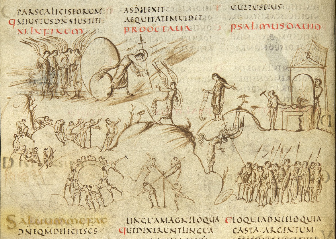 Utrecht Psalter, Utrecht University Library